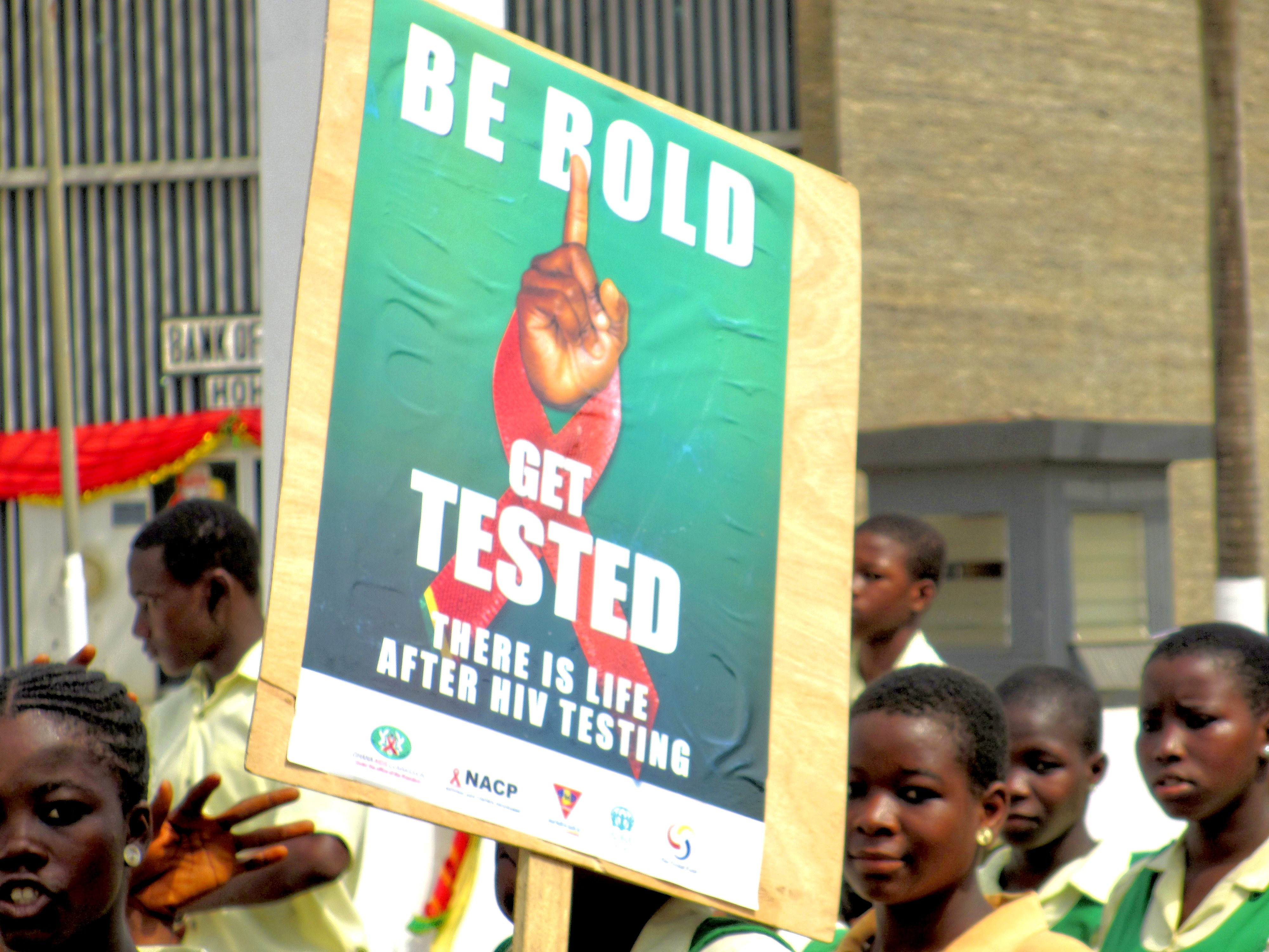 Advertisement poster for a HIV test in a protest demonstration of students in Hohoe (Volta Region, Ghana) in 2011